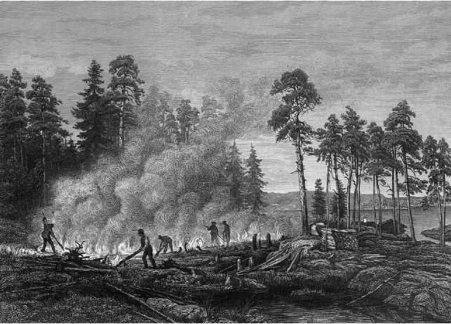 Slash-and-burn in Iisalmi